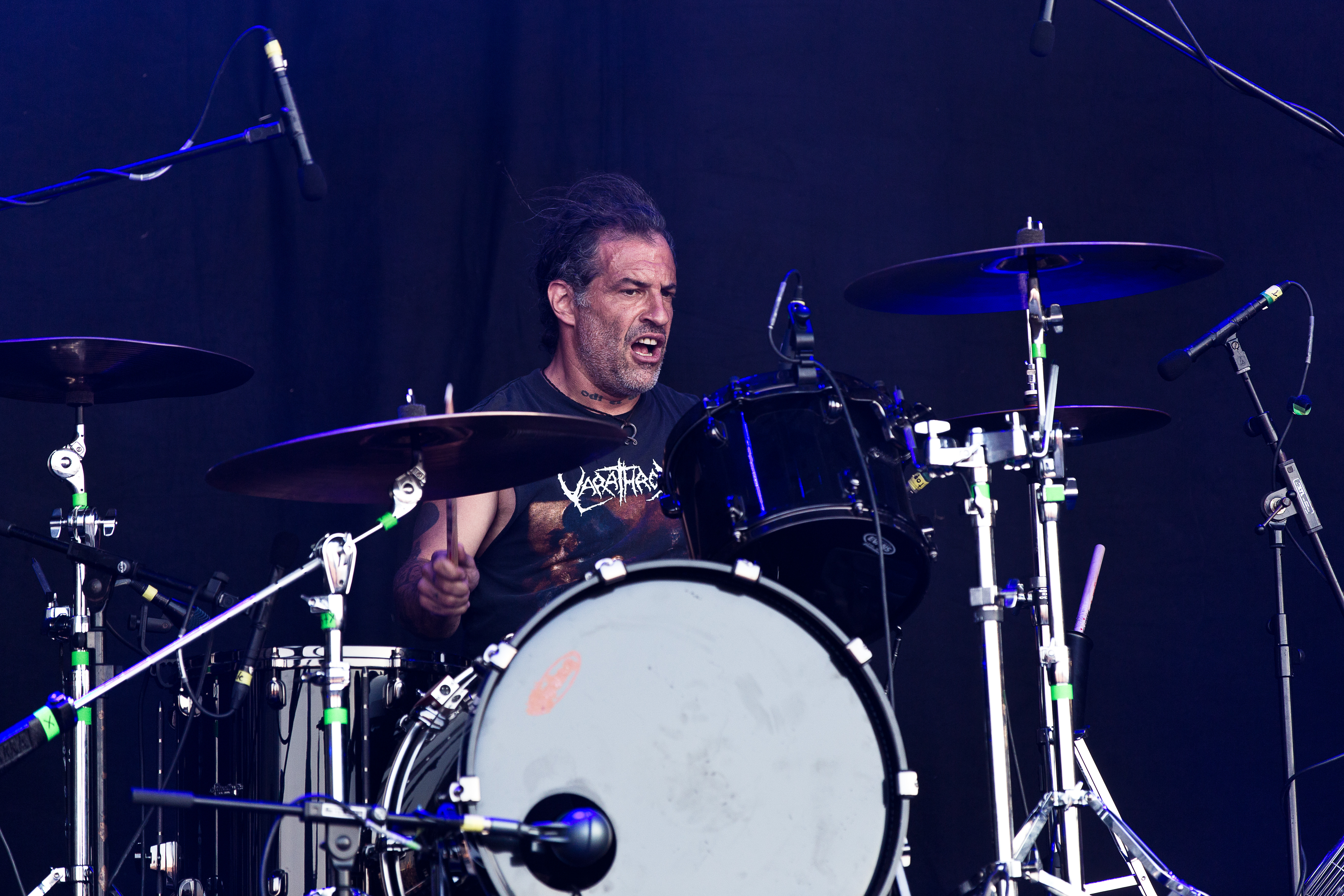 The US dark metal band Agalloch at the Party.San Open Air 2015 in Obermehler-Schlotheim/Germany.